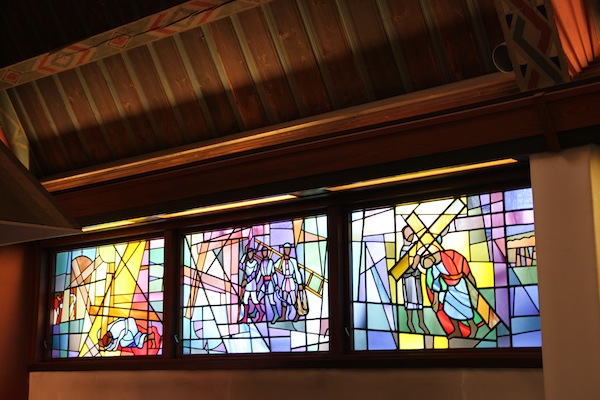 Torshov church - Glassmosaikk.jpg